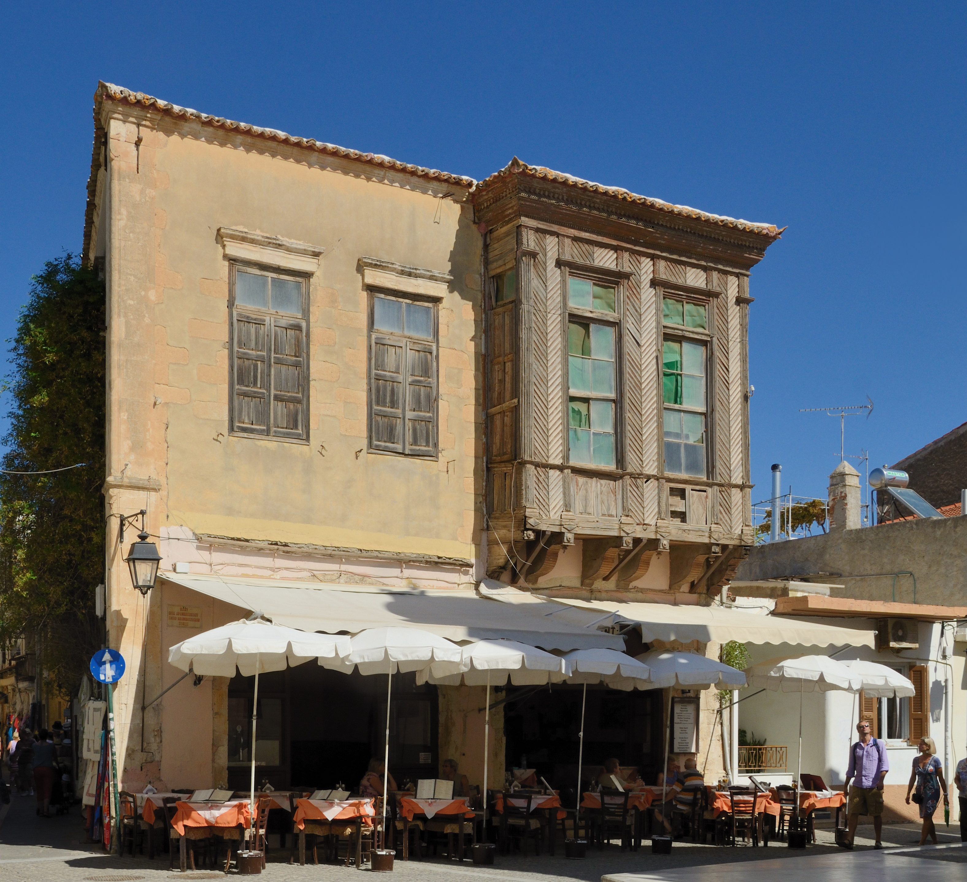 Rethymno: Turkish house